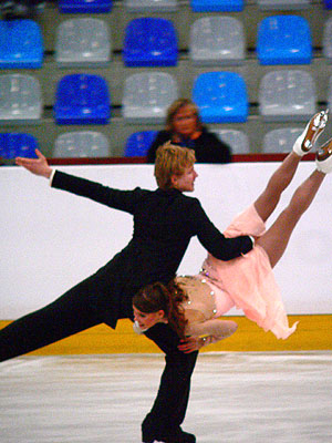 Grethe Grünberg and Kristian Rand during their free dance at the 2006 Junior Grand Prix event in The Hague, Netherlands